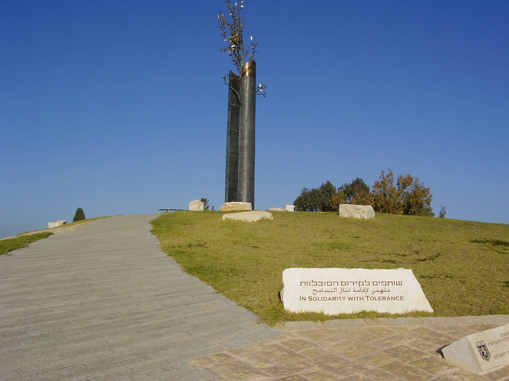 monument of tolerance in jerusalem אנדרטת הסובלנות בירושלים ליד ארמון הנציב